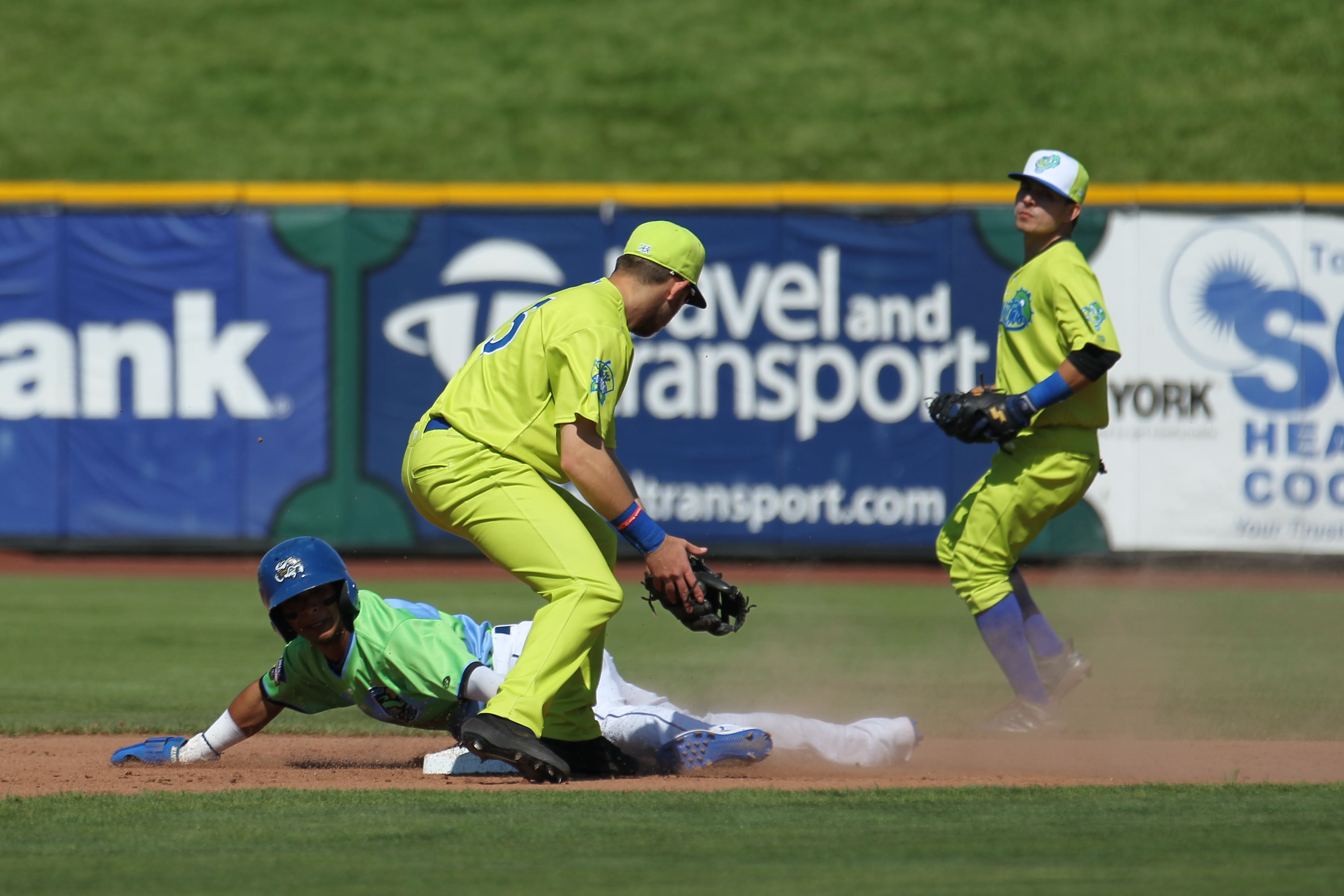 Minda Haas Kuhlmann | 2019 USAGE INSTRUCTIONS: You are welcome to share or publish to your own site or social media account, but you MUST credit me, Minda Haas Kuhlmann. Twitter: @minda33. Instagram: minda.haas